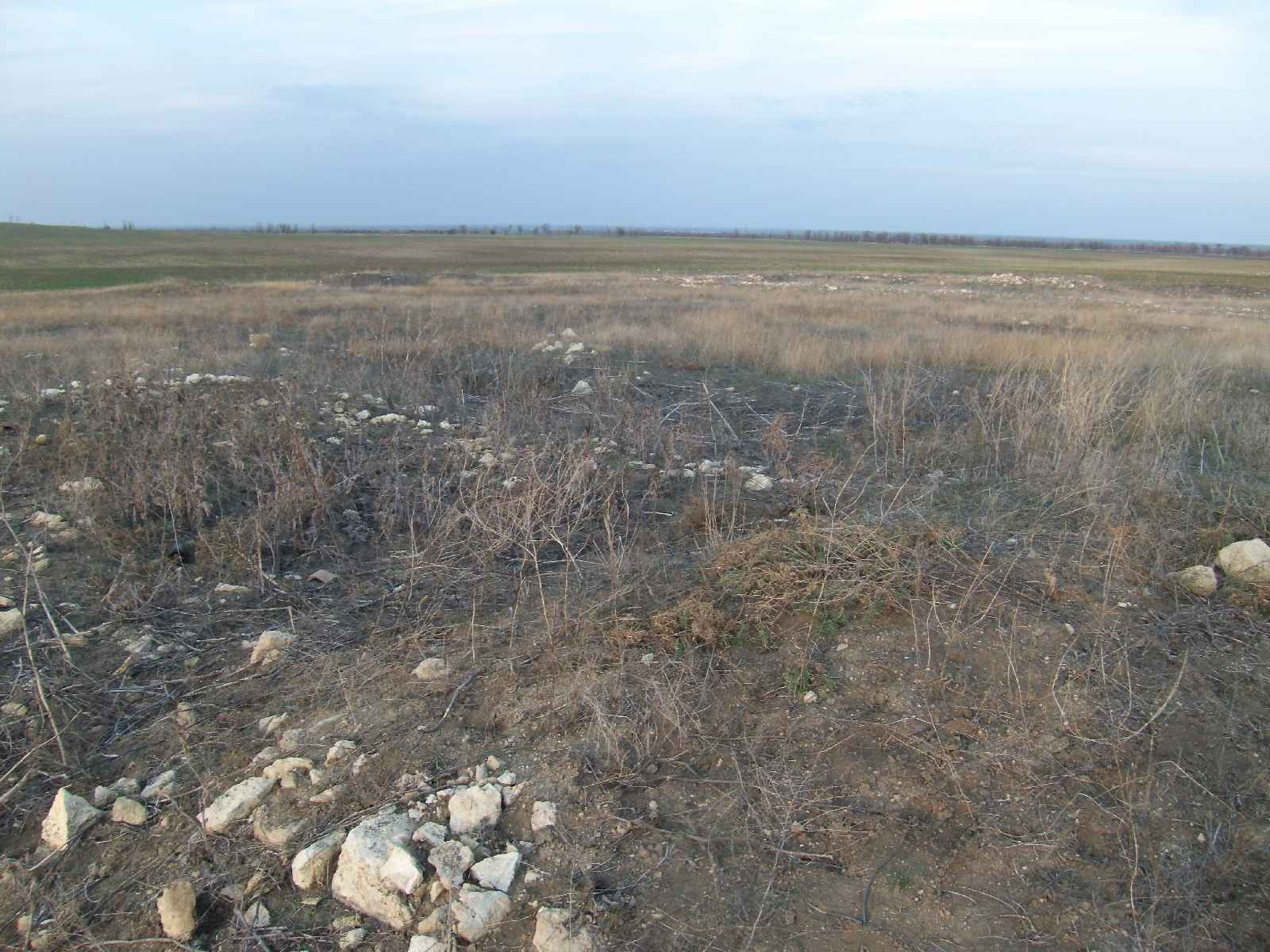 The ruins of the village Pyostroe, Crimea